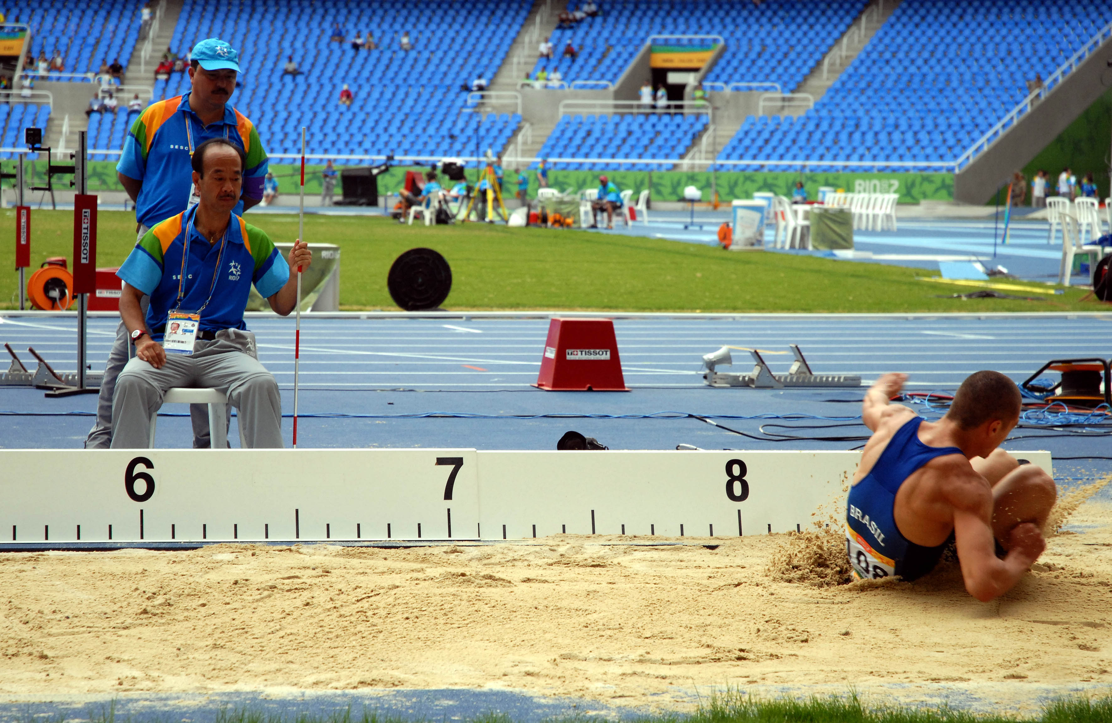 Carlos Chinin, Brazilian decathlete, during long jump competition - Rio 2007